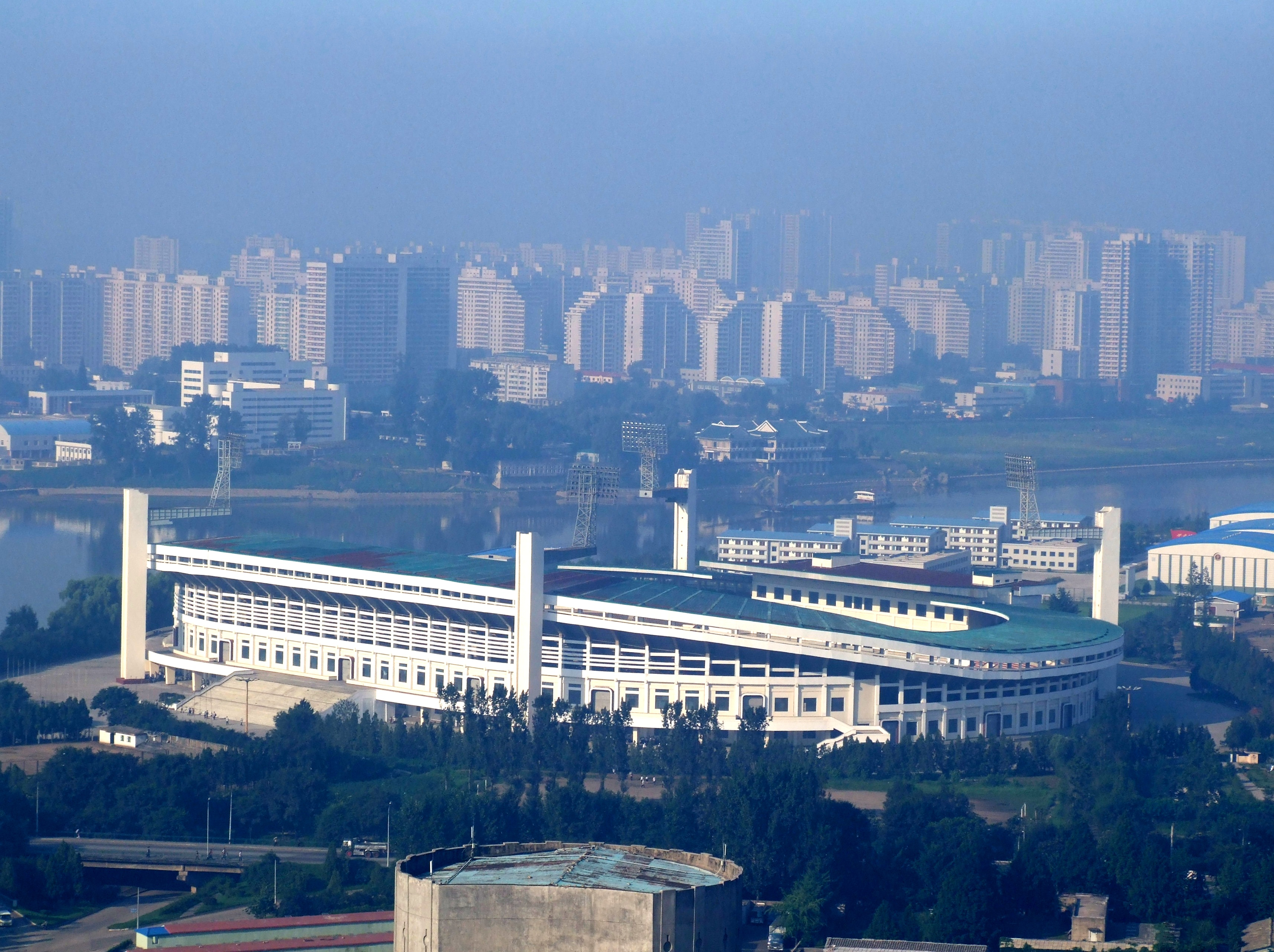 Yanggakdo Stadium